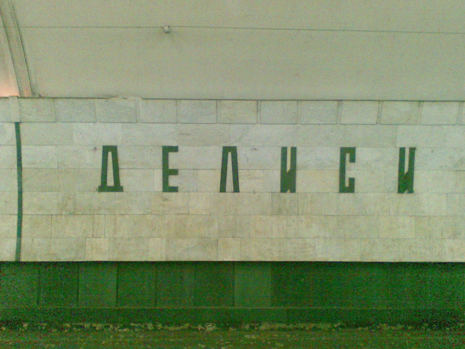 The logo of Delisi Metro Station (Ru) (Delisi (Ge: დელისი), formerly known as Gotsiridze (გოცირიძე) after the engineer Viktor Gotsiridze.)